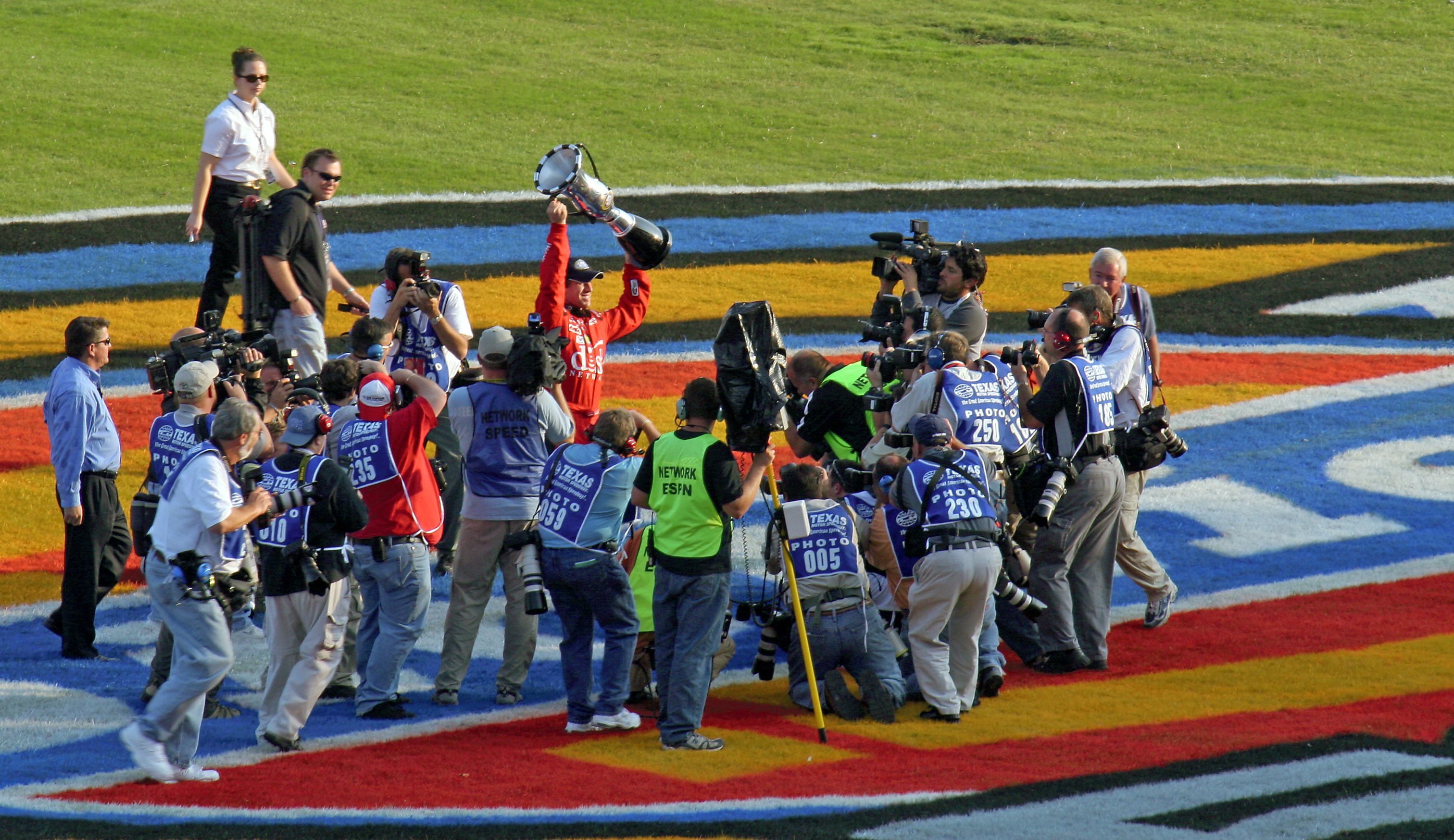 Carl Edwards clenched the 2007 NASCAR Busch Series championship at Texas Motor Speedway. After the race he took the trophy to the center of the infield and raised it for the crowd, and for this gaggle of photographers.